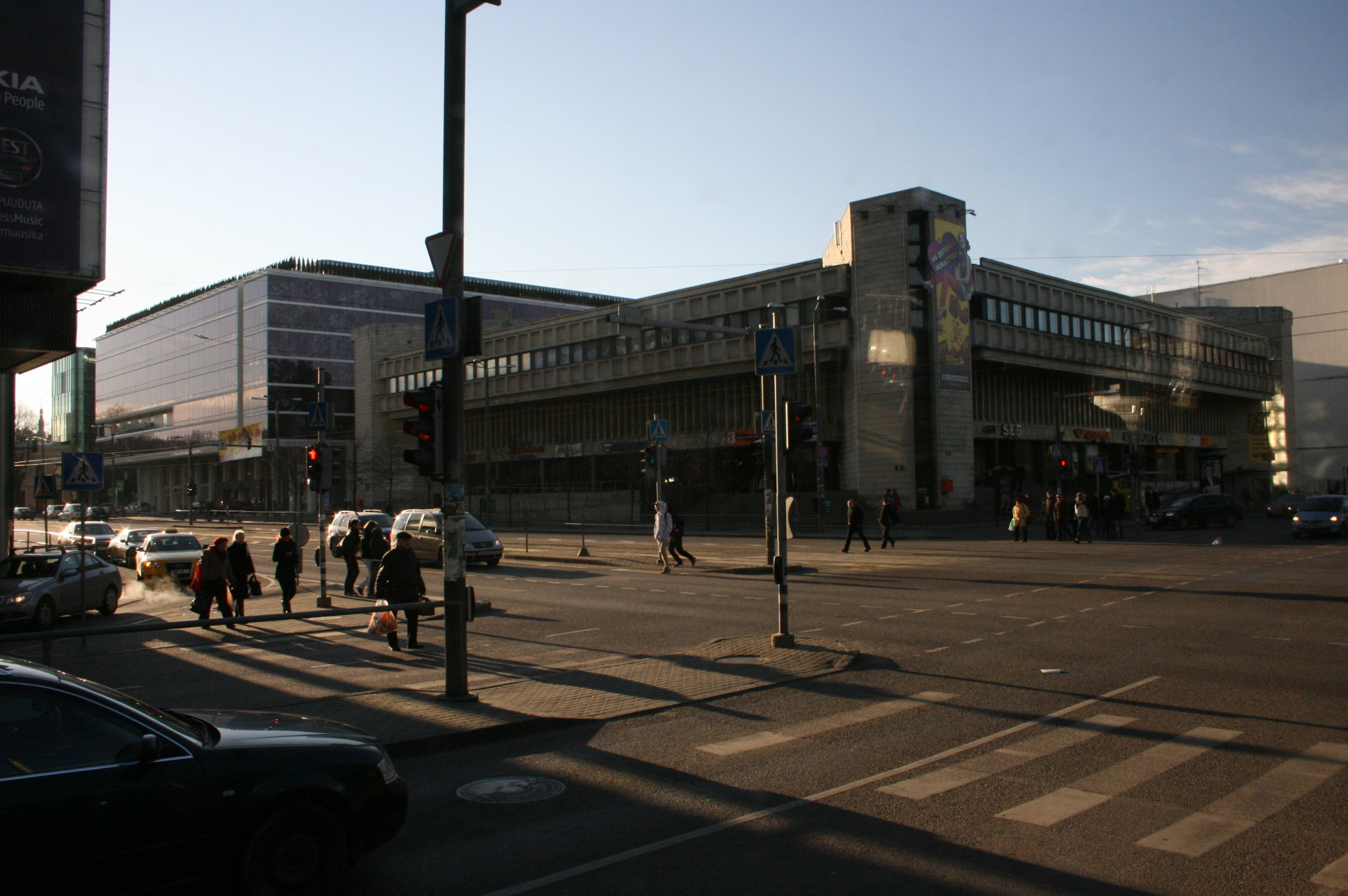 Narwa Road, Tallinn; Picture taken from